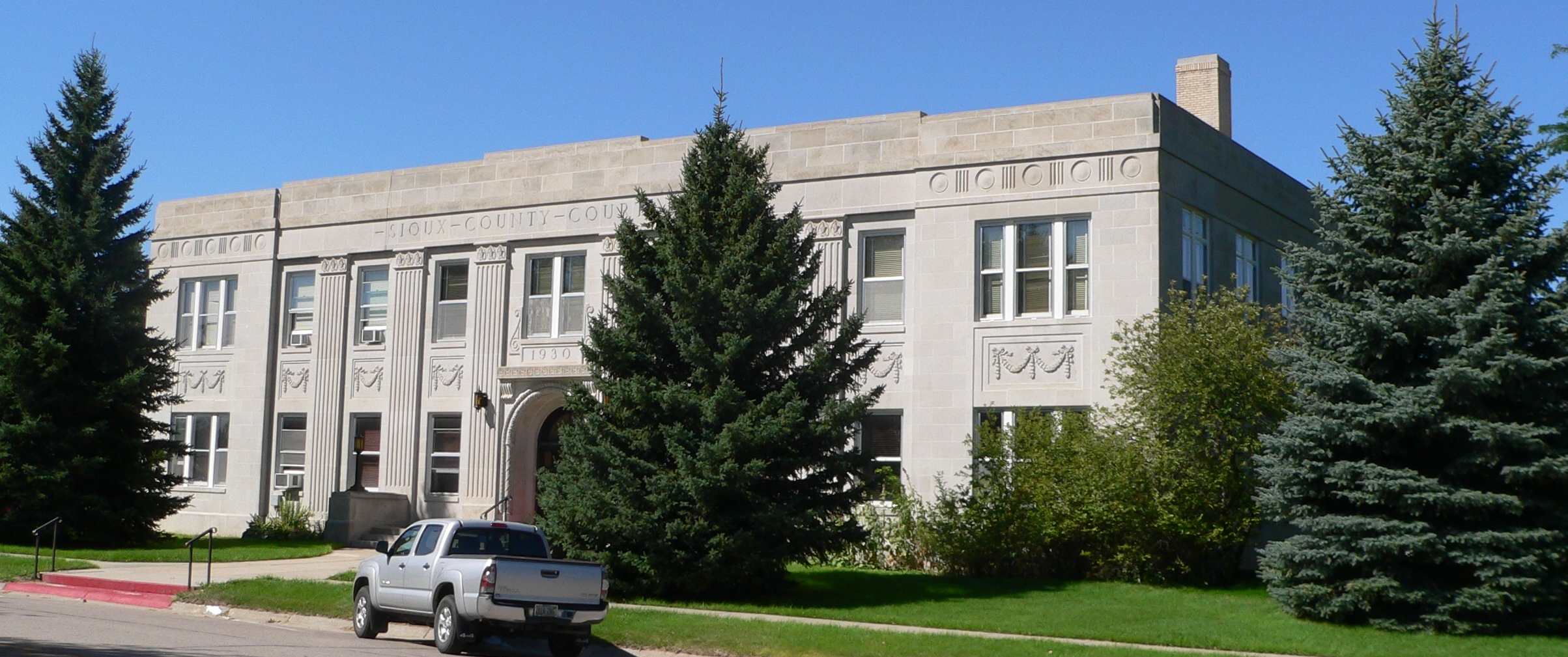 Sioux County Courthouse in Harrison, Nebraska; seen from the northeast. The Classical Revival building was constructed in 1930. It is listed in the National Register of Historic Places.